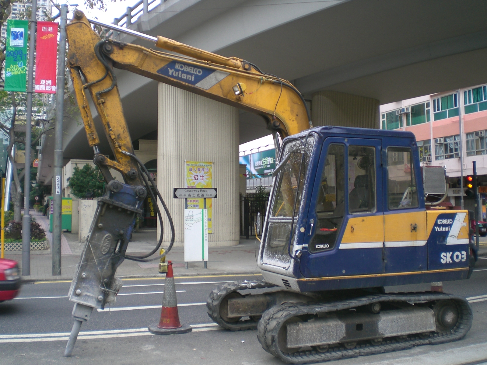 Kobelco Construction Machinery America, Construction equipment 高士威道, Causeway Road, Causeway Bay, Hong Kong